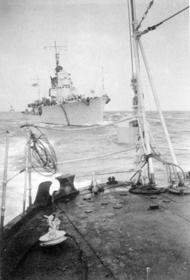 Swedish destroyer "HMS Romulus" moving in formation in the Mediterranean in april 1940. Photo taken from destroyer "HMS Psilander"